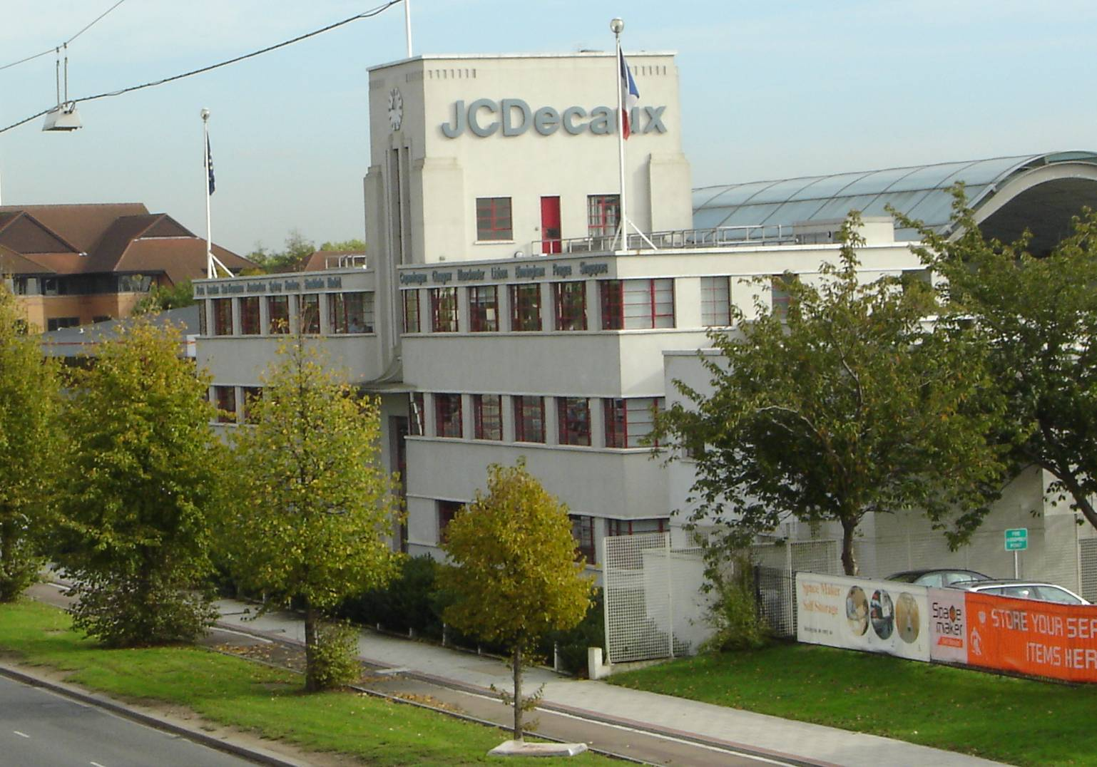 The former Currys Head office and factory at 991 Great West Road, Brentford, now occupied by JCDecaux.